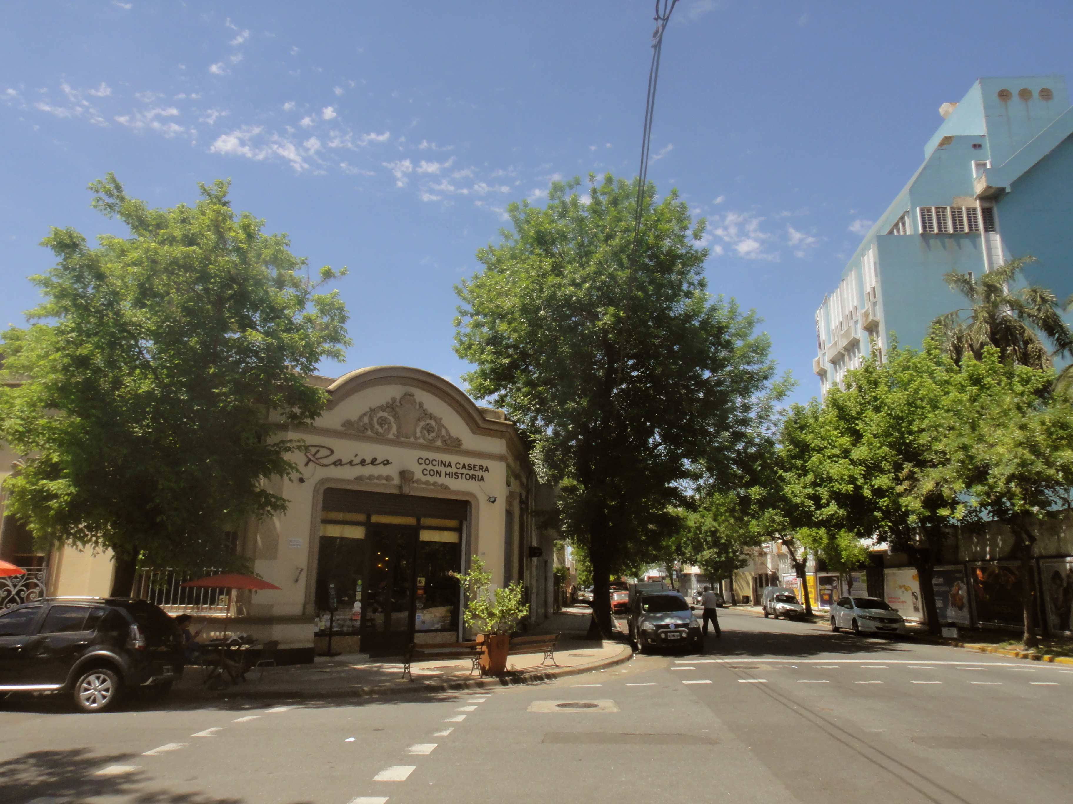 Crisólogo Larralde avenue, at the crossing with Estomba street in the Saavedra neighbourhood, Buenos Aires